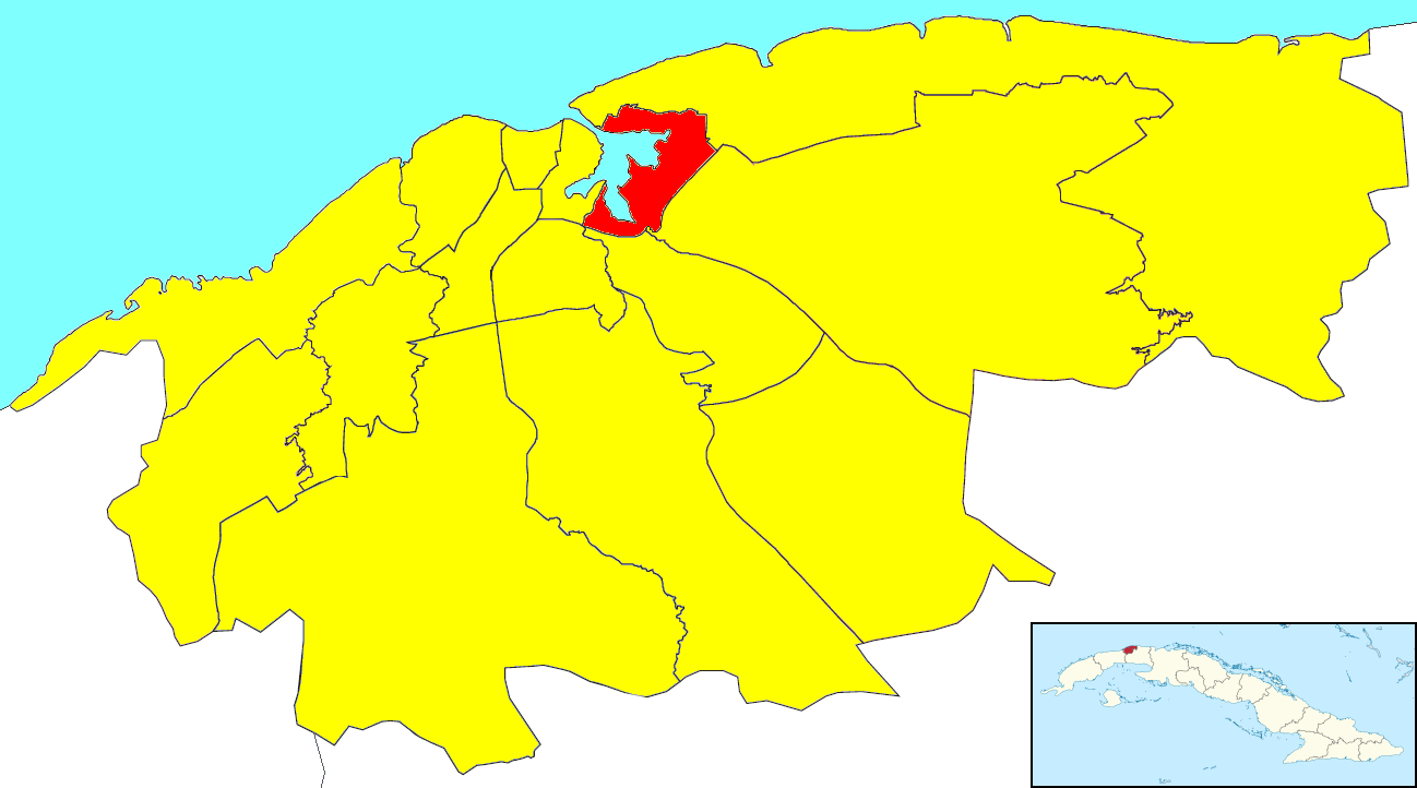 A map of the municipality of Regla (shown in red) within the city of Havana (yellow). The little Cuban map in the corner shows Havana (dark red) within the island.